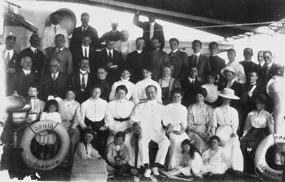 A group of passengers aboard RMS Ophir, posing with the Captain